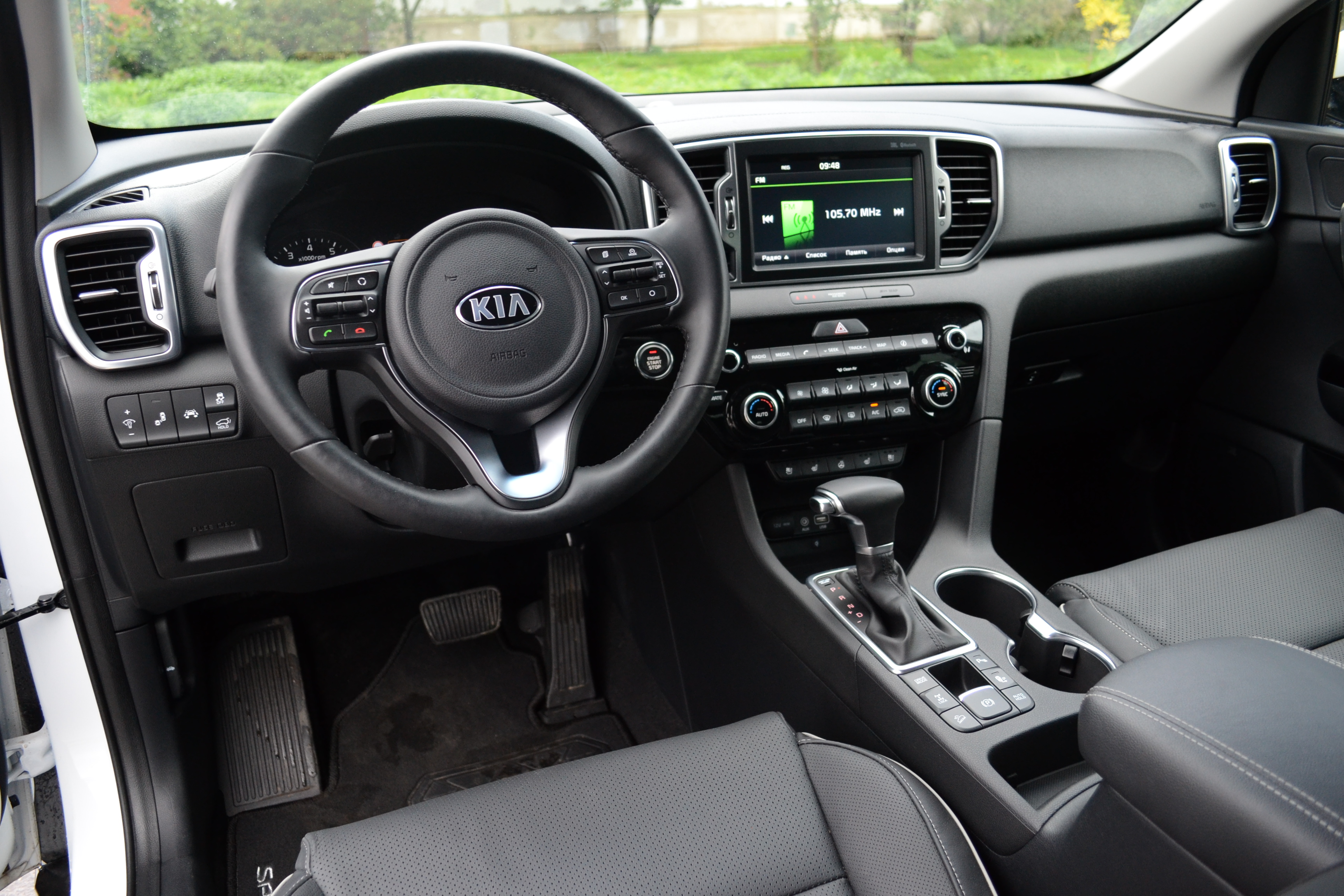 Kia Sportage (QL) interior